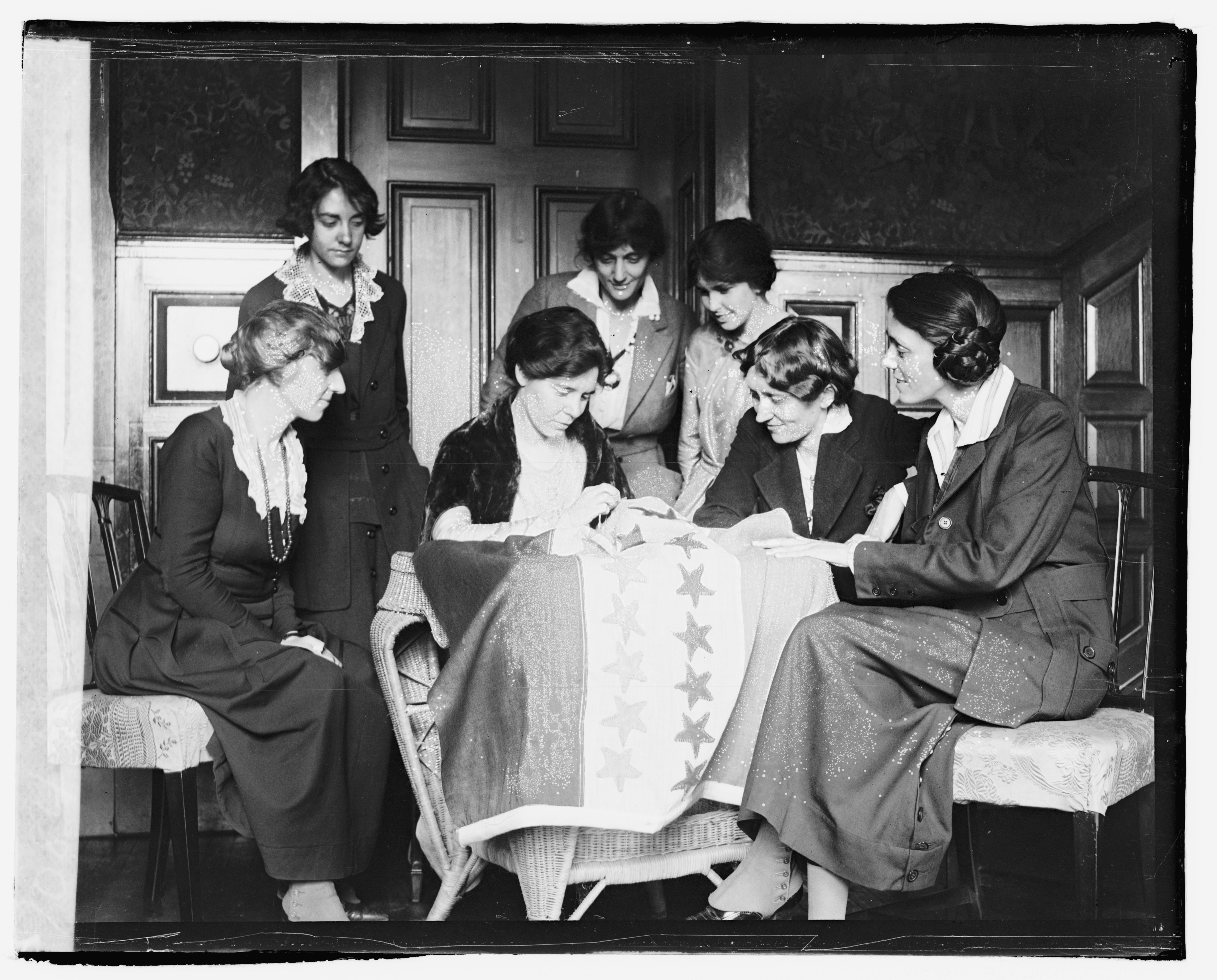 Title: Sewing stars on suffrage flag Abstract/medium: 1 negative : glass ; 4 x 5 in. or smaller